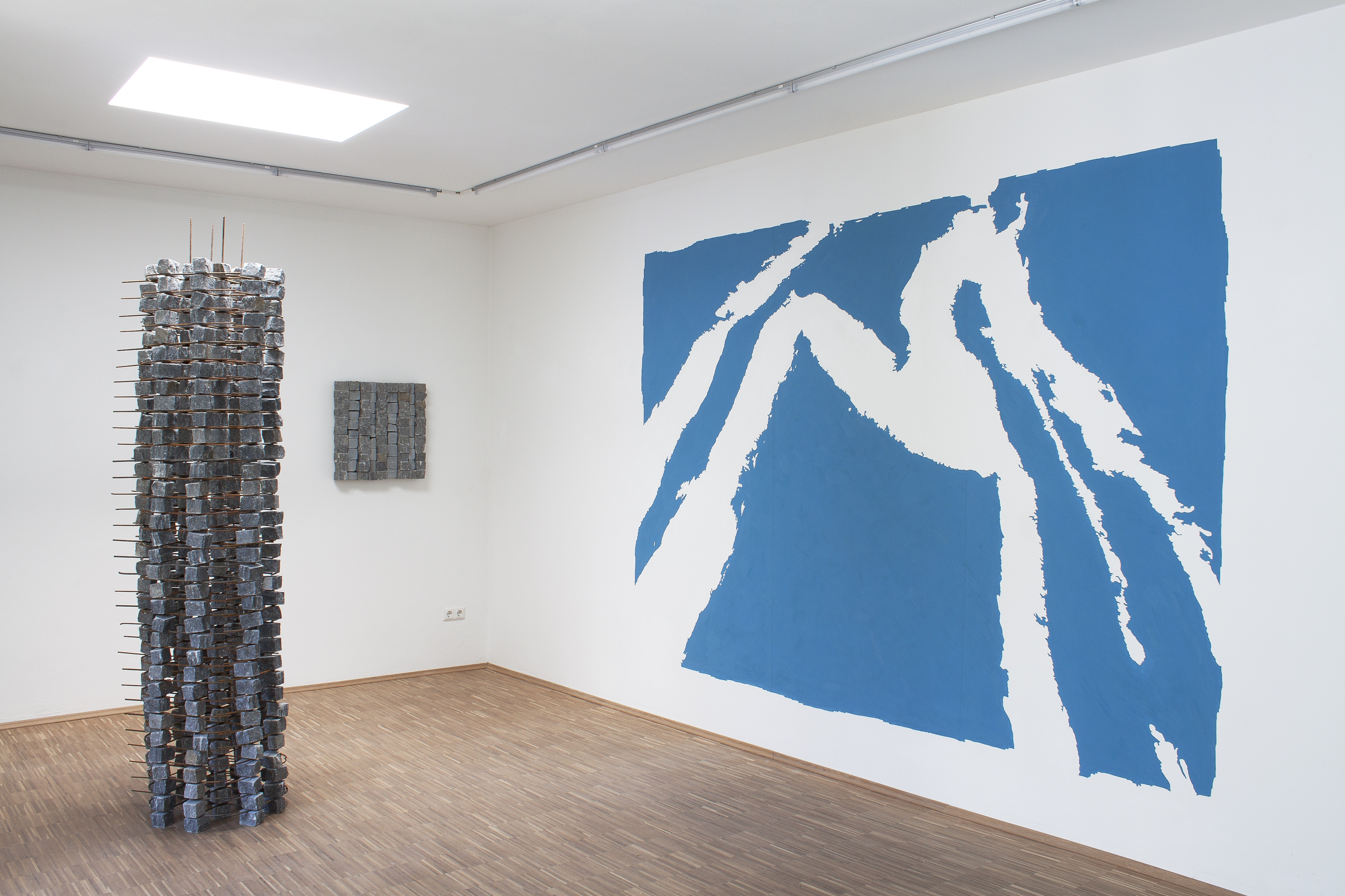 Installation view from the solo show "eye-sight", apartment of art, 2013